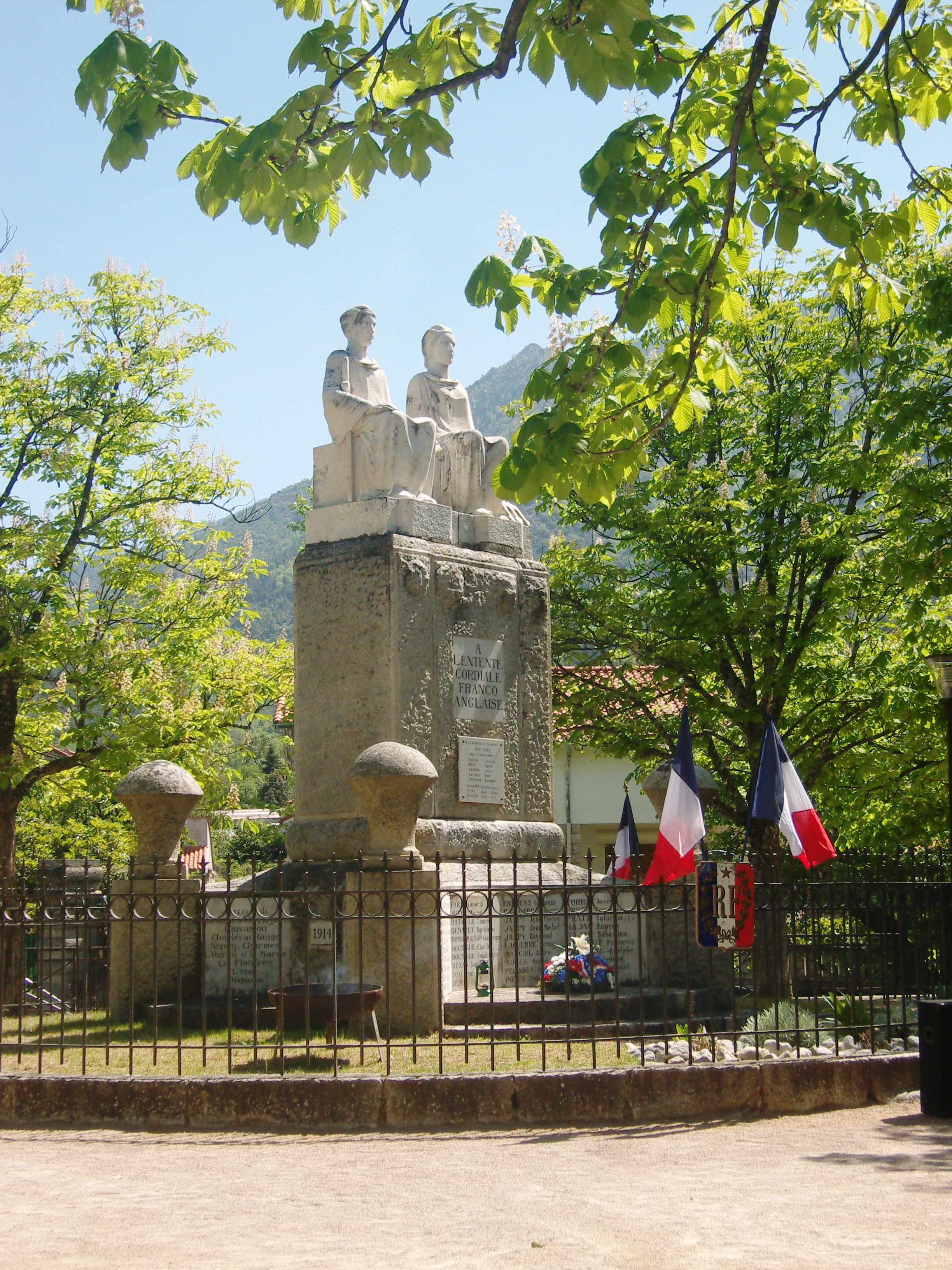 Monument dedicated to the Entente Cordiale, Vernet-les-Bains